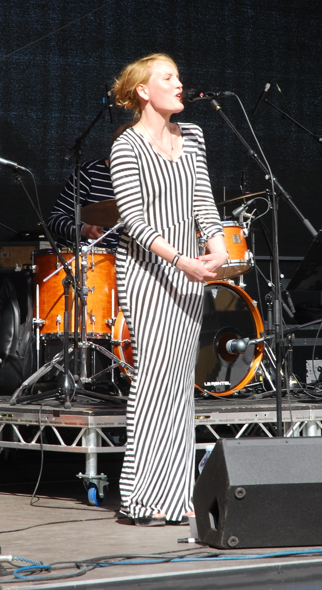 Swedish Jazz Singer Sara Riedel at Stockholm Jazz Festival, June 2010